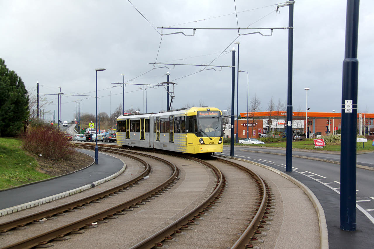 The last section of the route into Ashton is all on segregated track. The use of a plain concrete bed rather than ballasted track is relatively unusual..